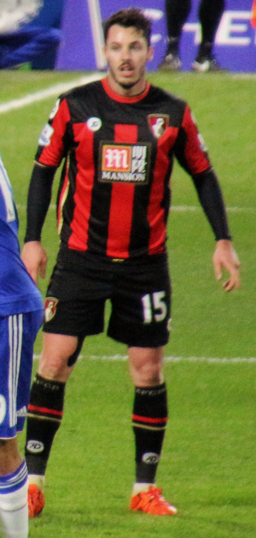 Adam Smith (footballer born 1991)